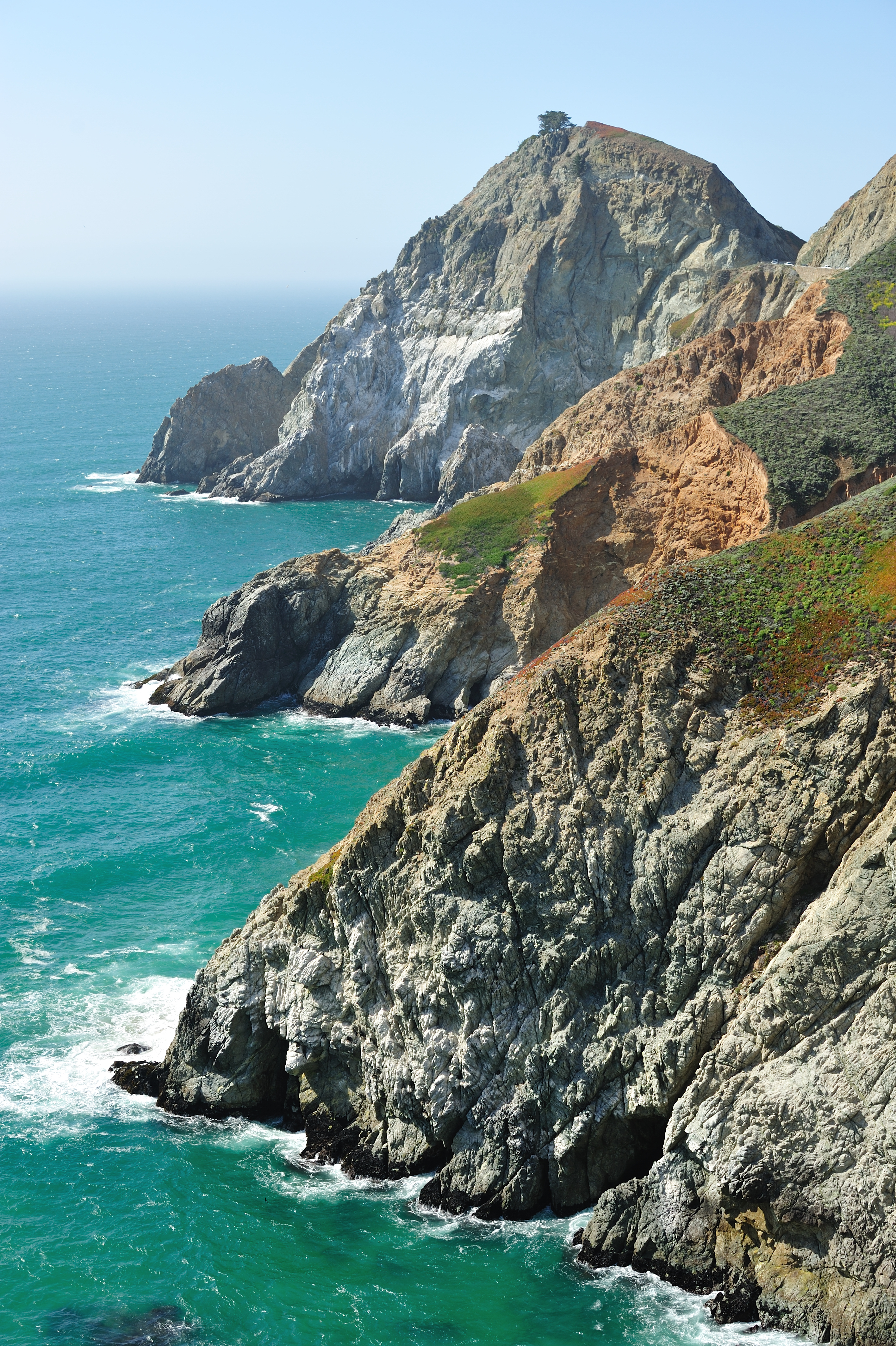 Cliffs constituting part of the Devil's Slide coastal promontory in northern California.